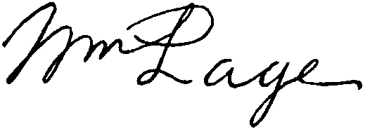 Signature of U.S. painter William Page